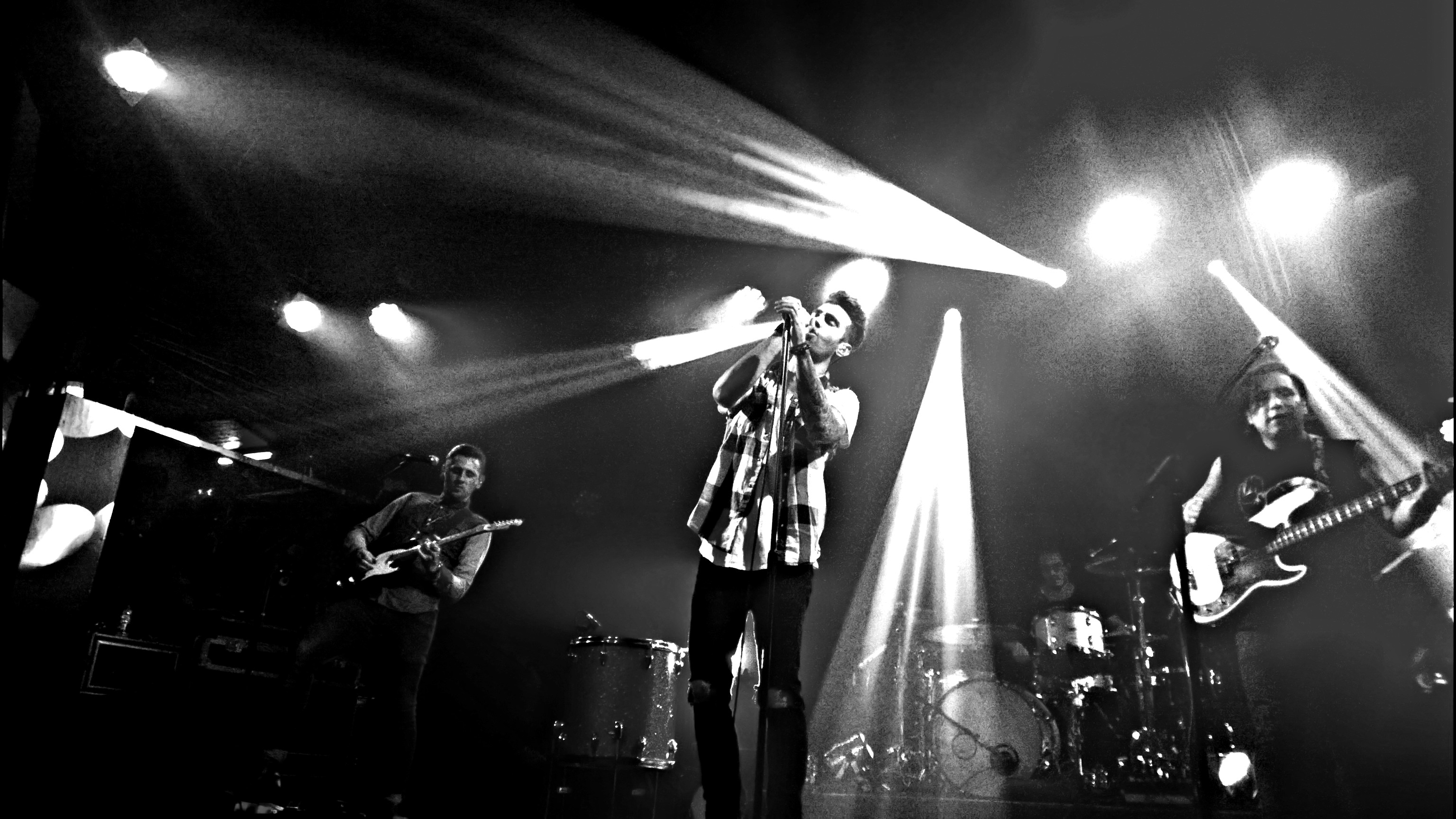 American Authors, performing at the Heaven music venue in London.